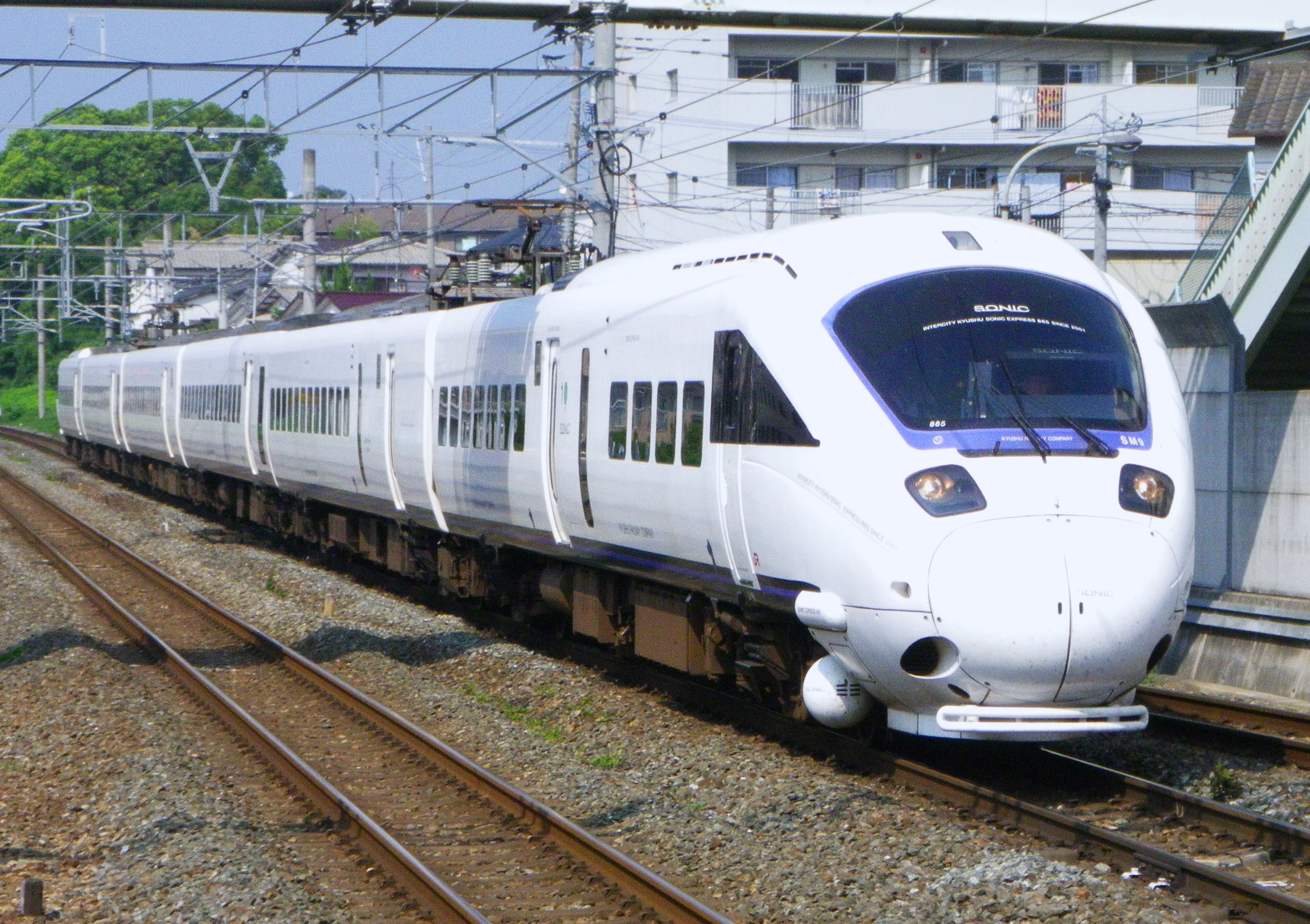 JR Kyushu 885 series EMU set SM9